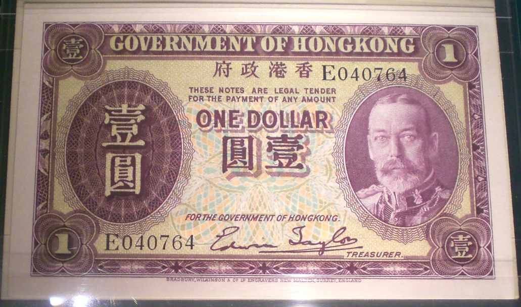 香港歷史博物館, Hong Kong Museum of History